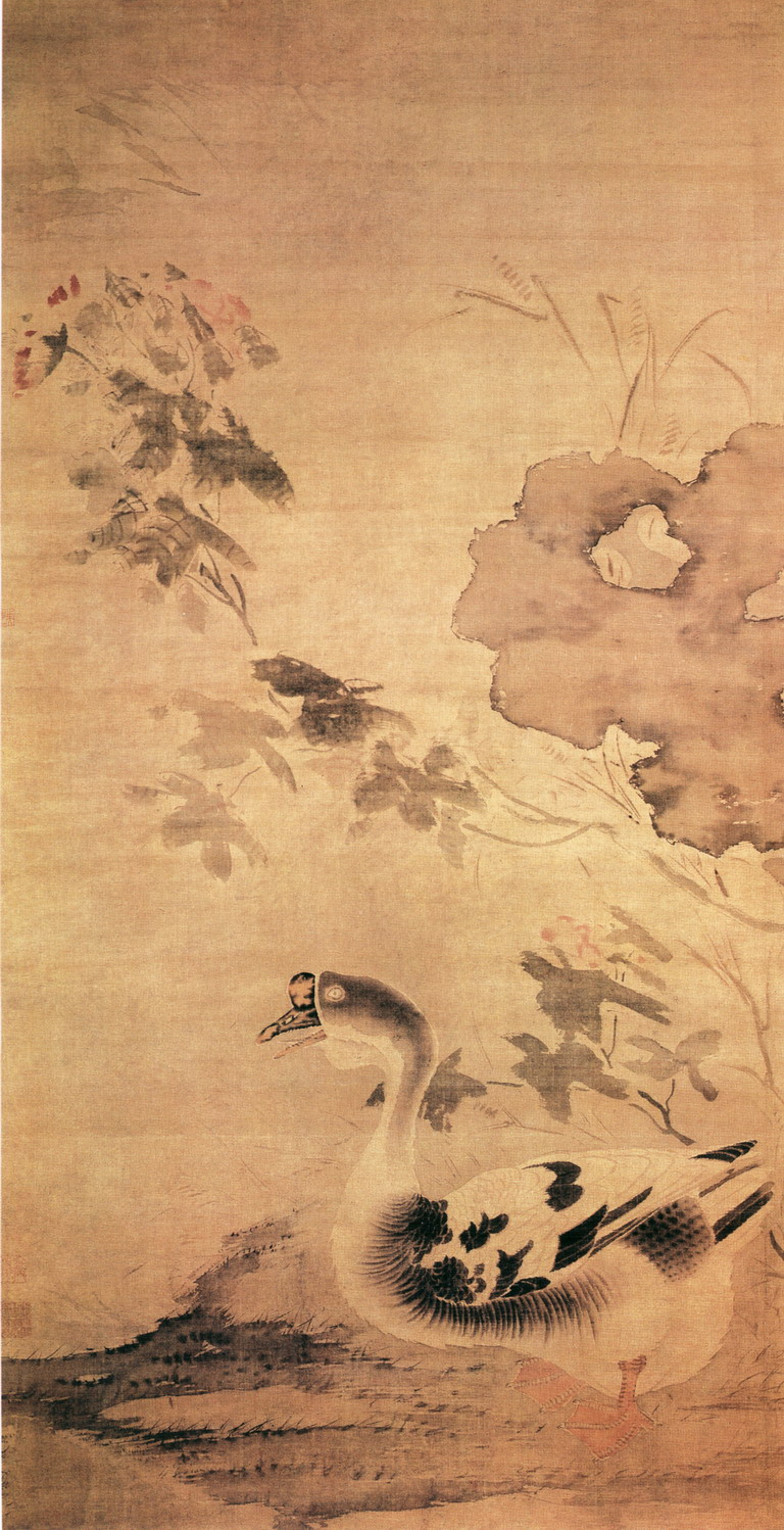 "Swimming Goose by Flowers and Rocks" (芙蓉游鹅图) Hanging scroll. Ink and color on silk. Width 84.2 cm, Height 159.3 cm. Located in Palace Museum, Beijing (北京故宫博物院藏 ). See Barnhart, R. M. et al. (1997). Three thousand years of Chinese painting. New Haven, Yale University Press. ISBN 0-300-07013-6 Page 207.